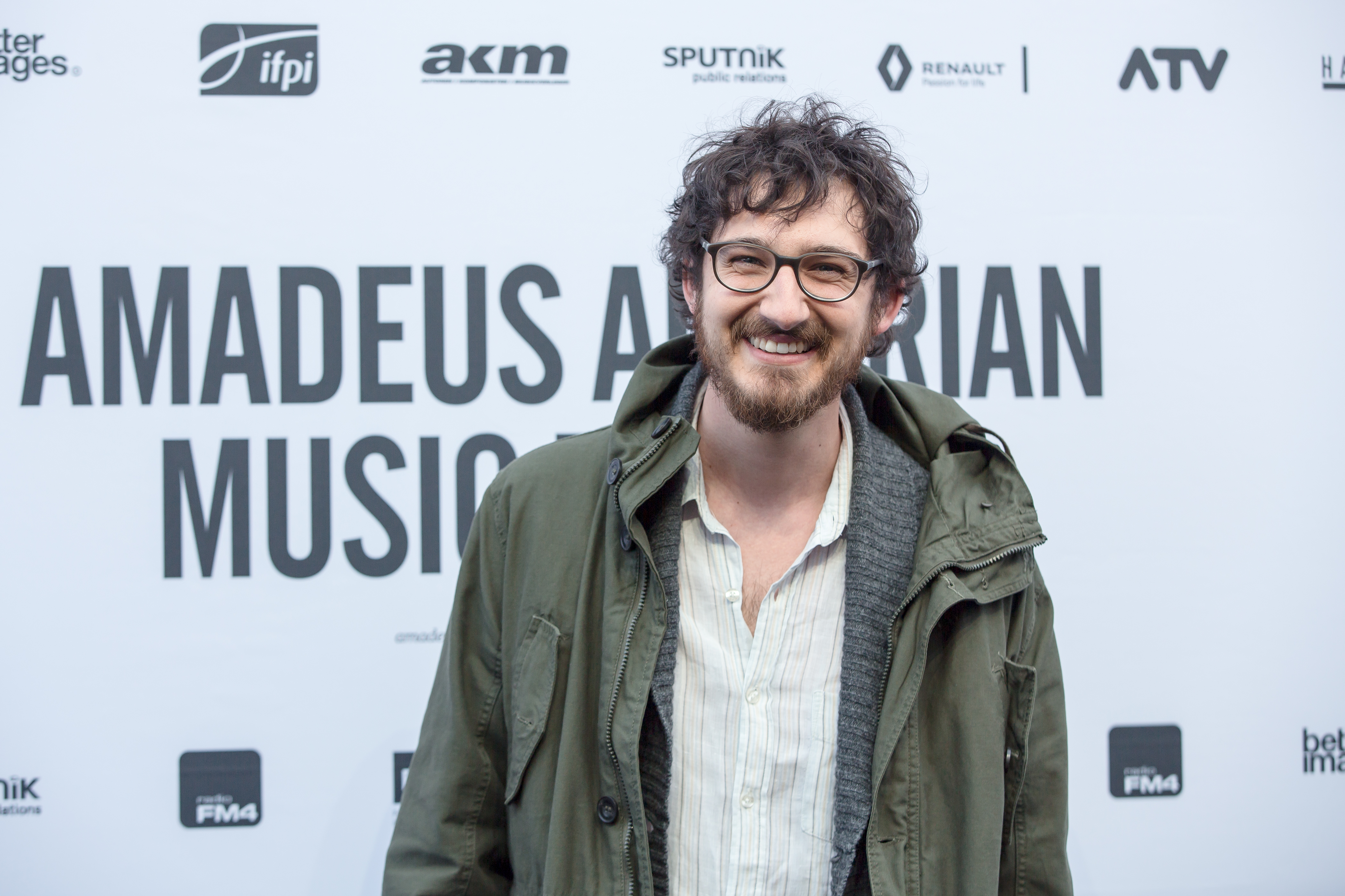 Thomas David at the Amadeus Austrian Music Award 2015 at Volkstheater in Vienna